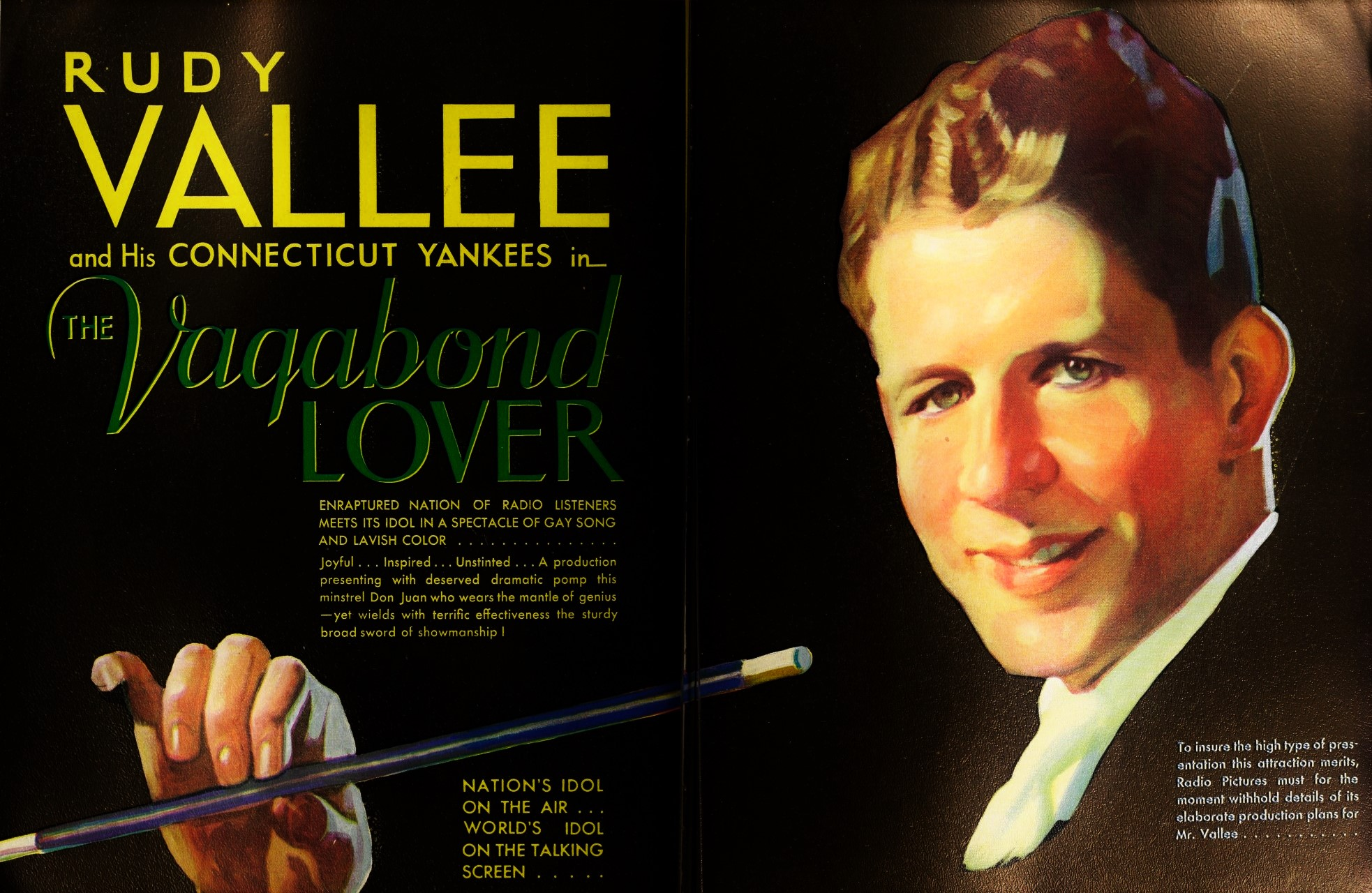 Motion Picture News, July 6, 1929